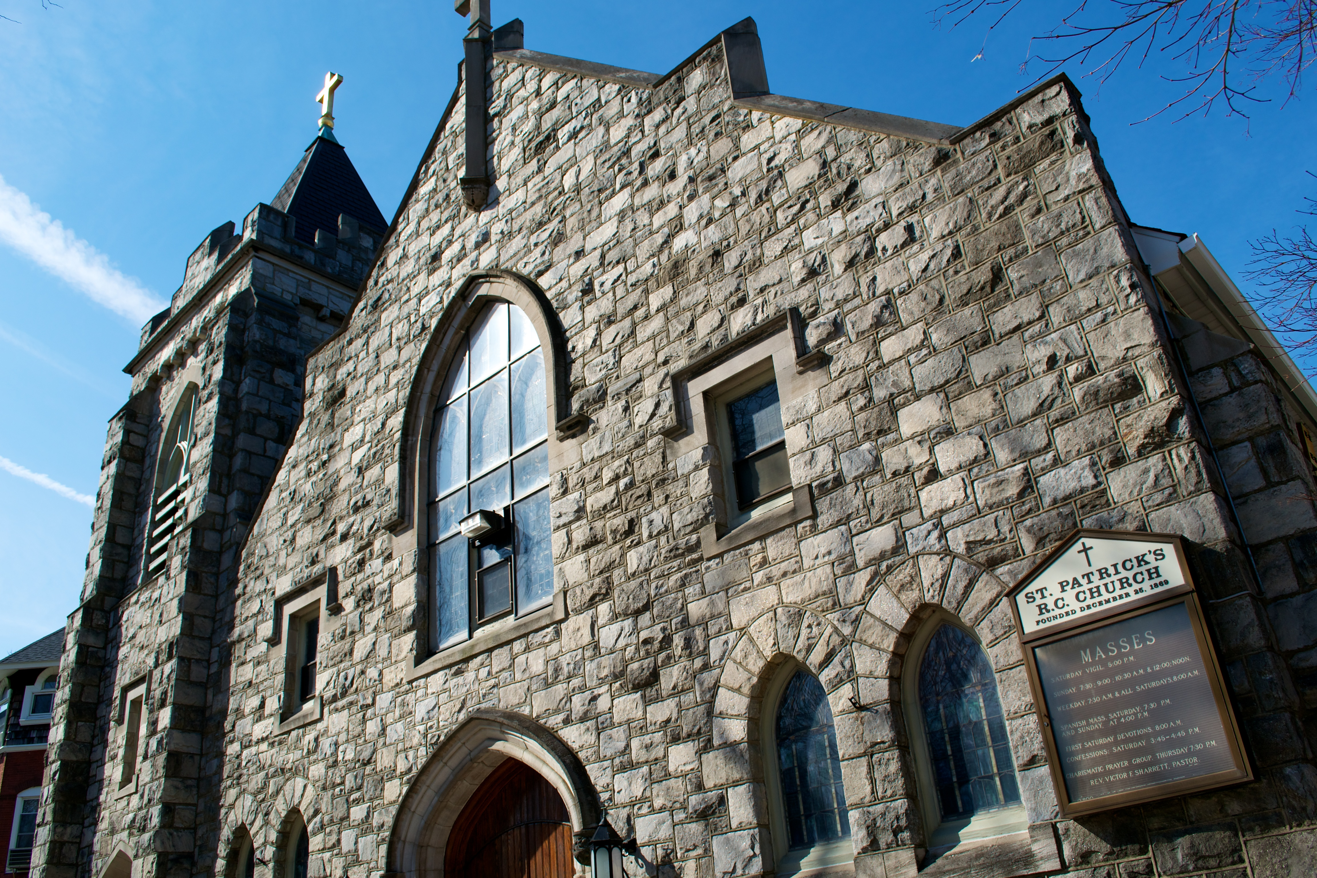 St. Patrick Church in Kennett Square, Pennsylvania